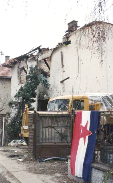 A forlorn Yugoslav flag in an utterly destroyed town. One of a set here